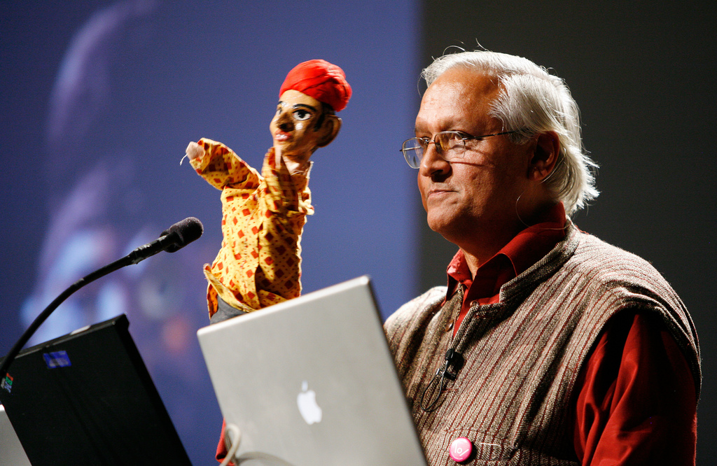 Bunker Roy speaking at Poptech 2008. Shot by Kris Krug.